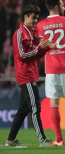 Benfica-Zenit UEFA Champions League 2019/20 (10/12/2019)